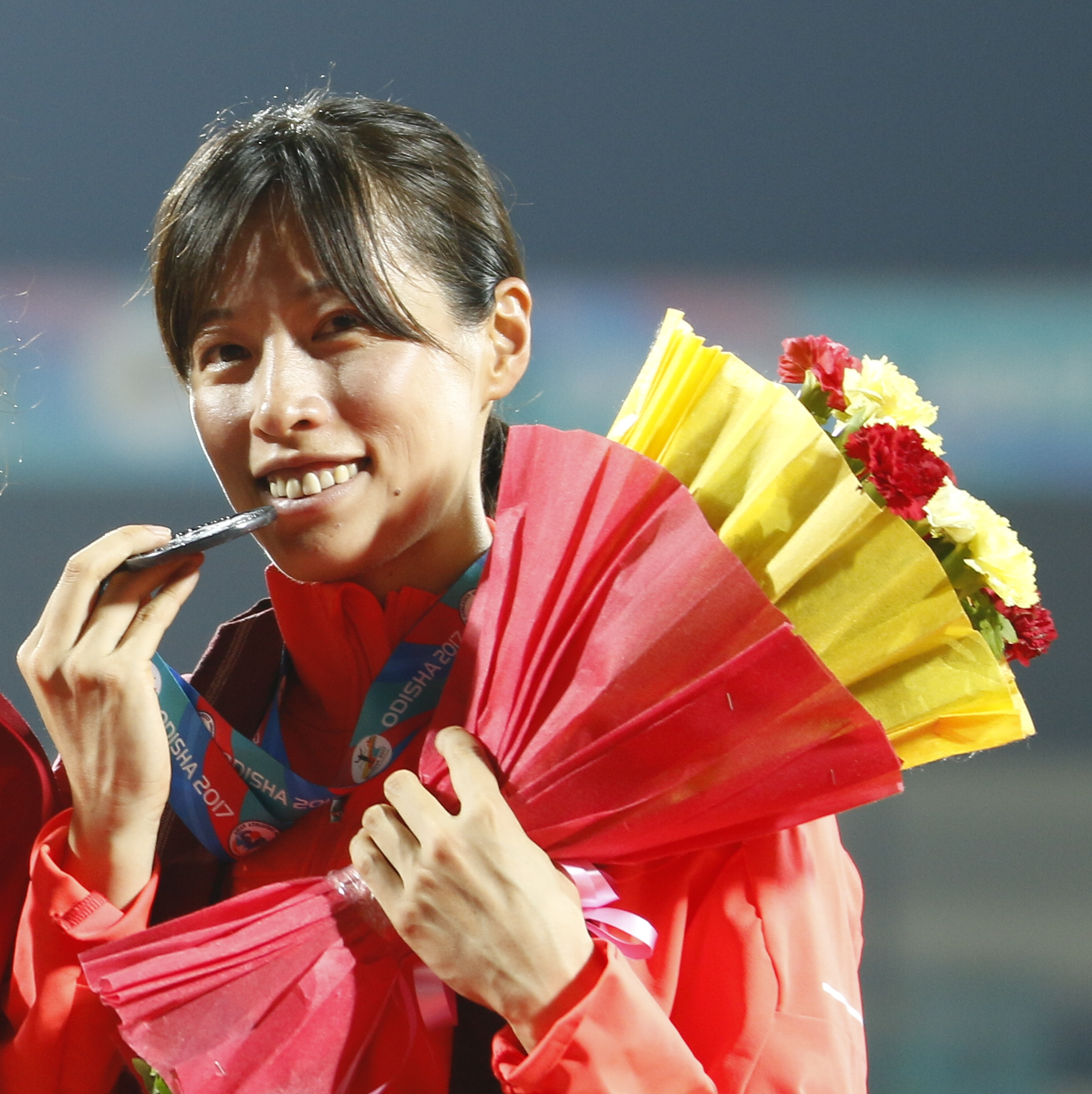 2017 Asian Athletics Championships at the Kalinga Stadium in Bhubaneswar, India